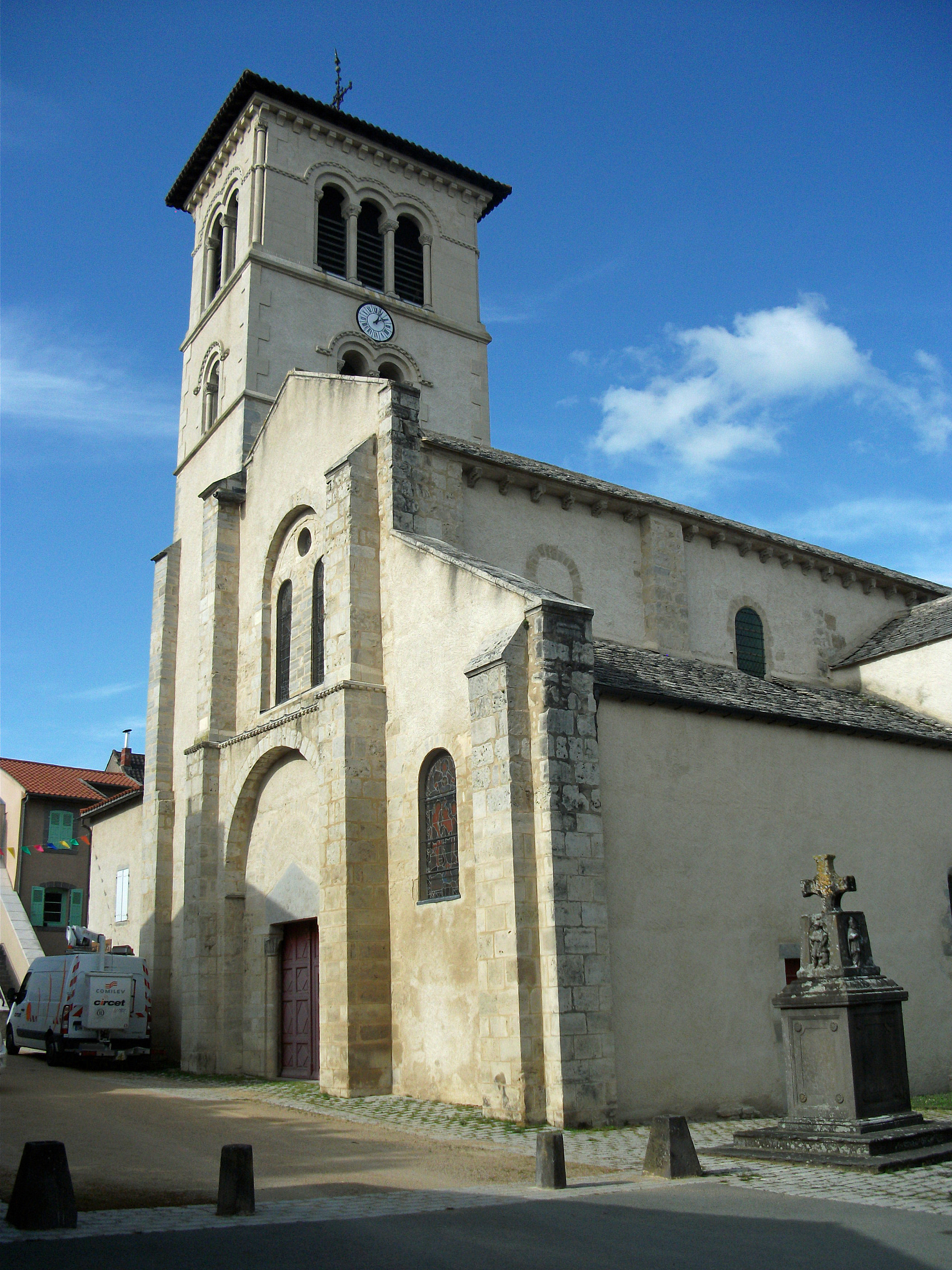 Part of church of Artonne, Puy-de-Dôme, Auvergne-Rhône-Alpes, France [10873]